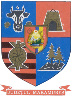 Communist coat of arms of Maramureș County, Socialist Republic of Romania.